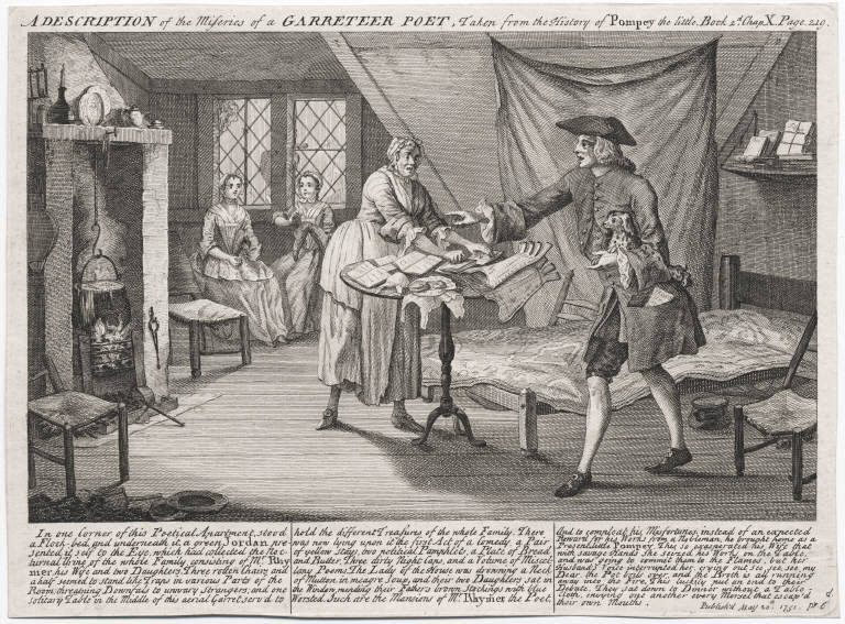 A description of the miseries of a garreteer poet : taken from the The History of Pompey the Little; or, The Life and Adventures of a Lap-Dog, by Francis Coventry, book 2d, cap. x, page 219 / J. June imp.